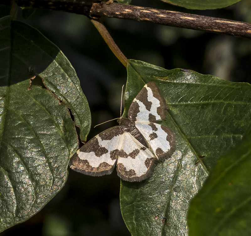 Lomaspilis marginata in the Aamsveen, The Netherlands